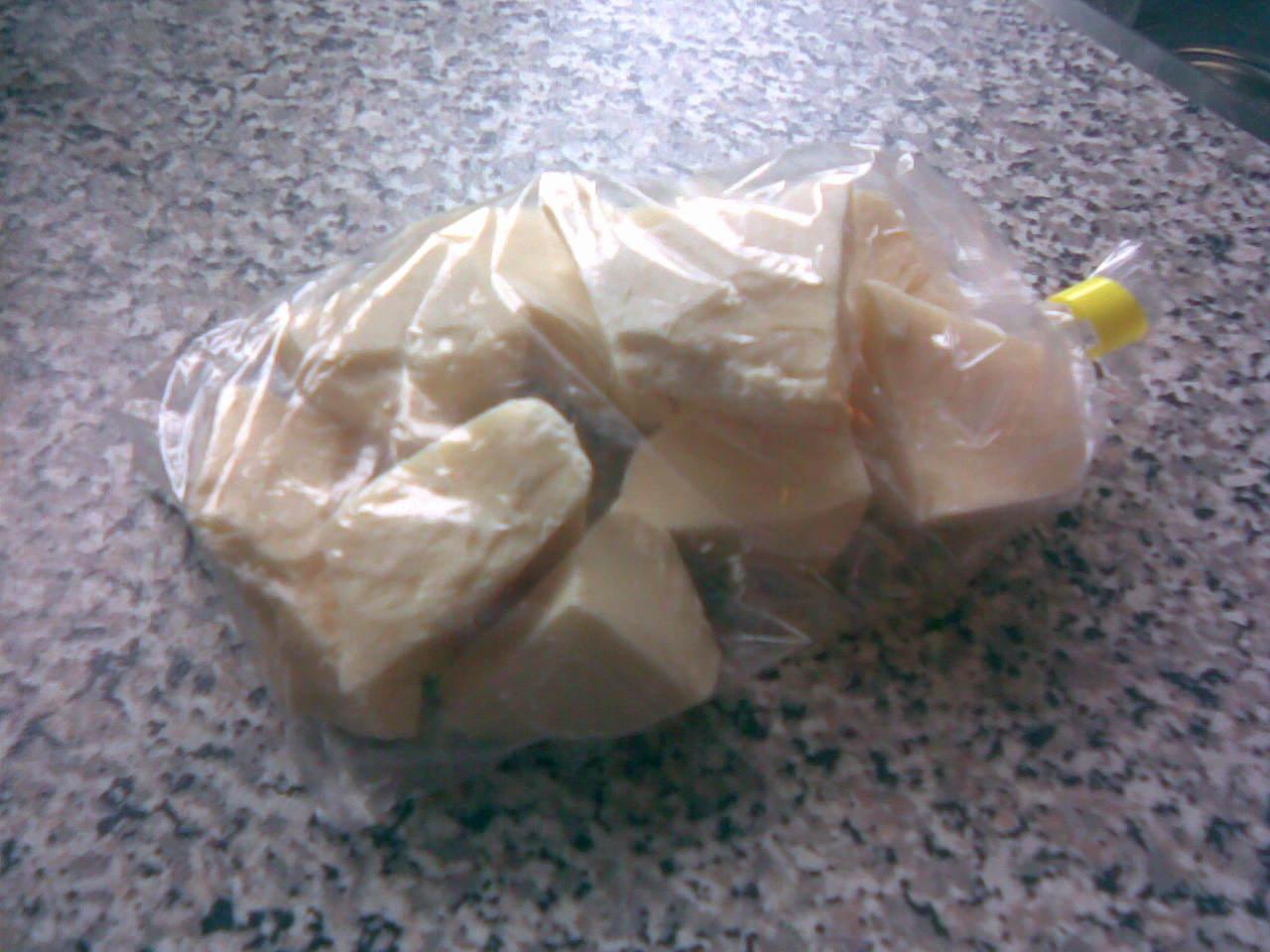 Bag with pieces of borsthoning/jodenvet